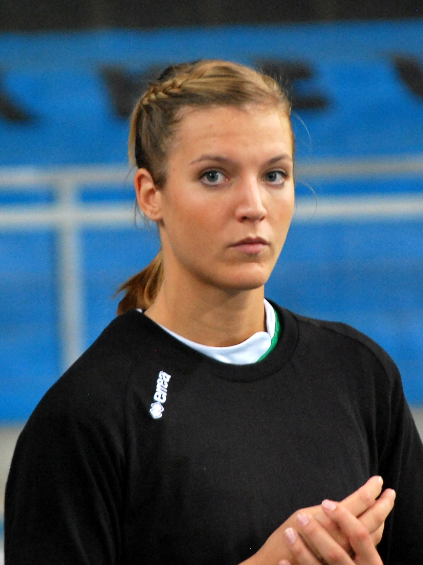 Maren Brinker, volleyball player from Germany